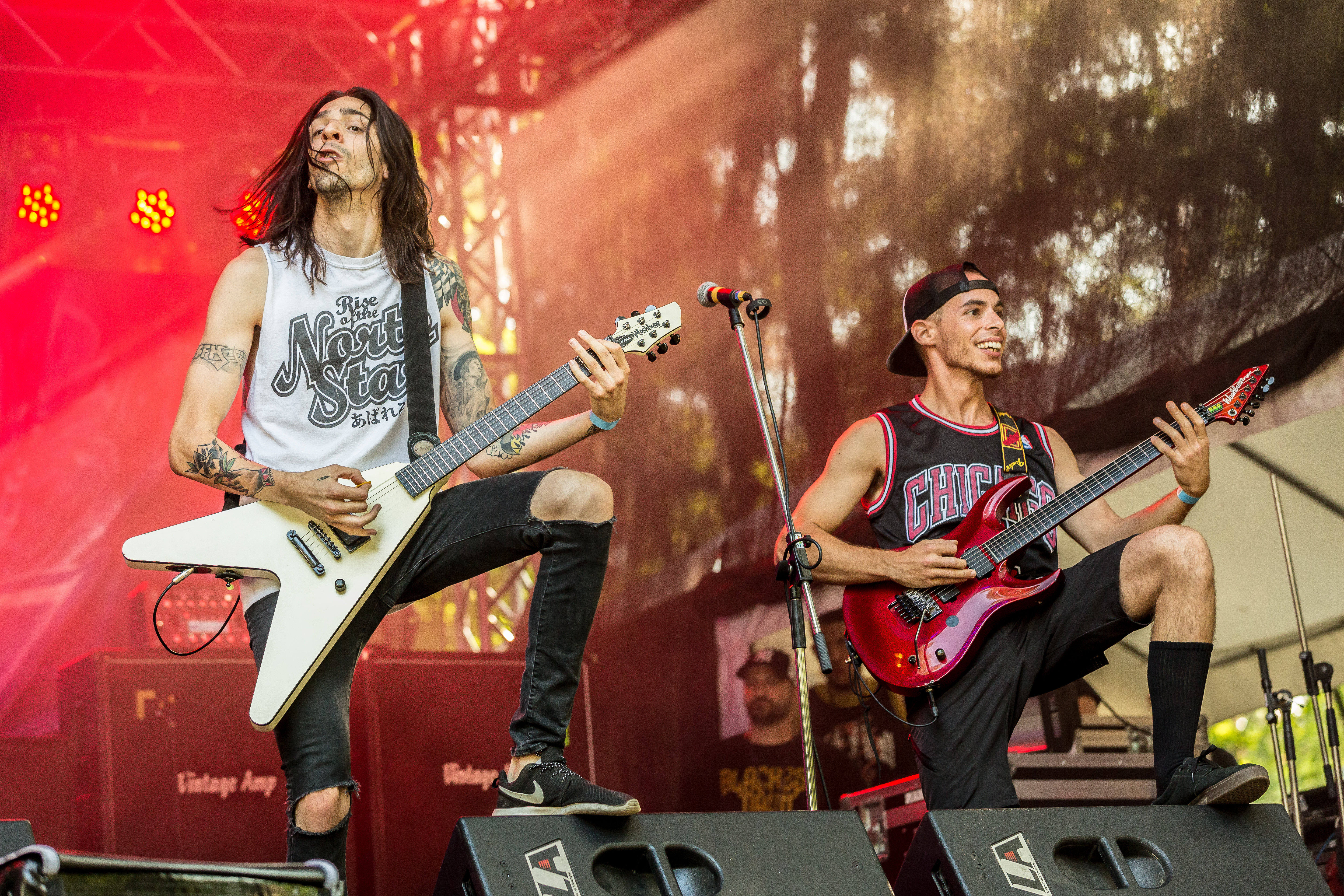 The Spanish thrash metal band Crisix at the Rock unter den Eichen Open Air 2017 in Bertingen/Germany.